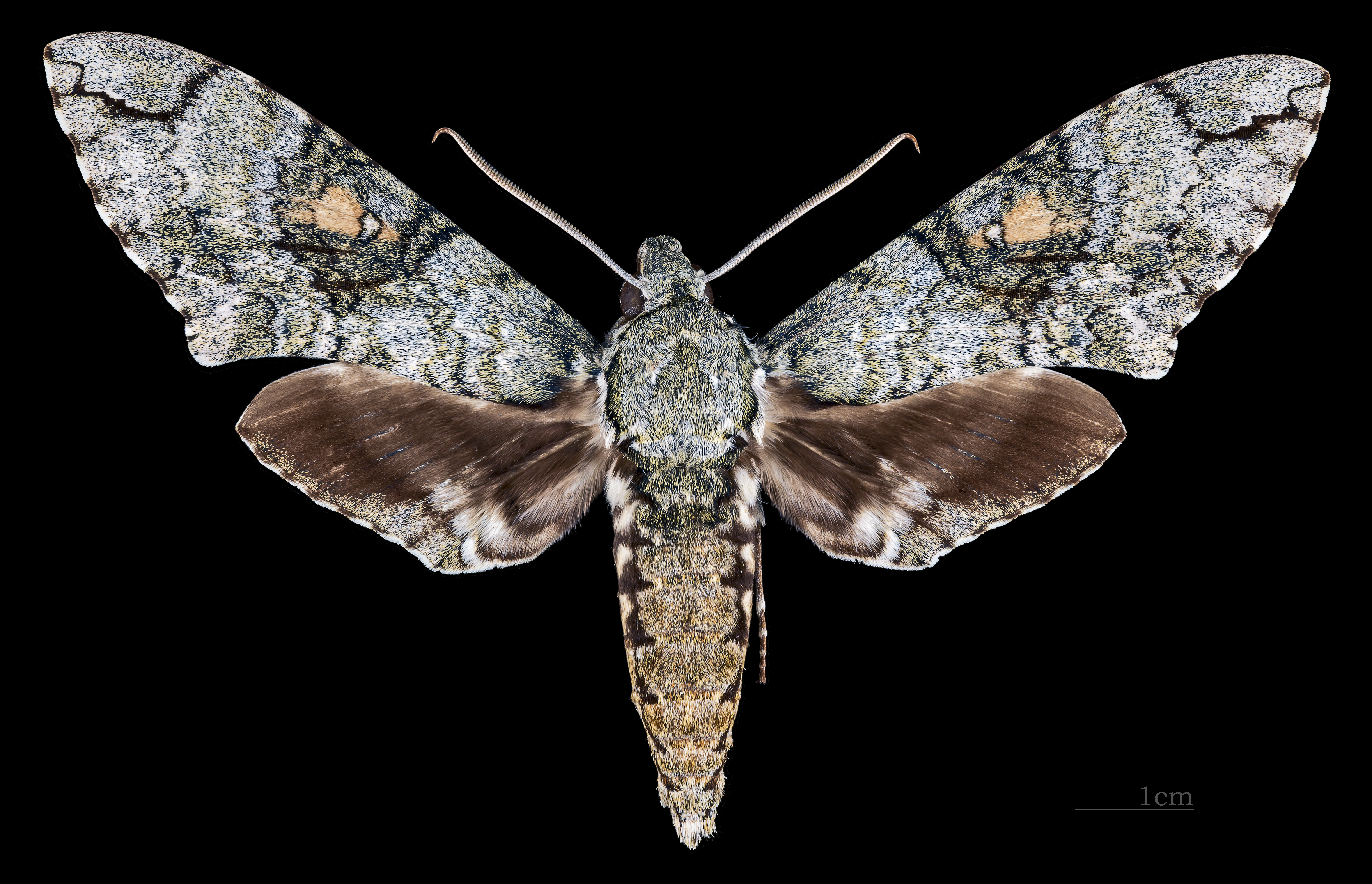 Manduca florestan - Dorsal side Collection of the Mathematician Laurent Schwartz